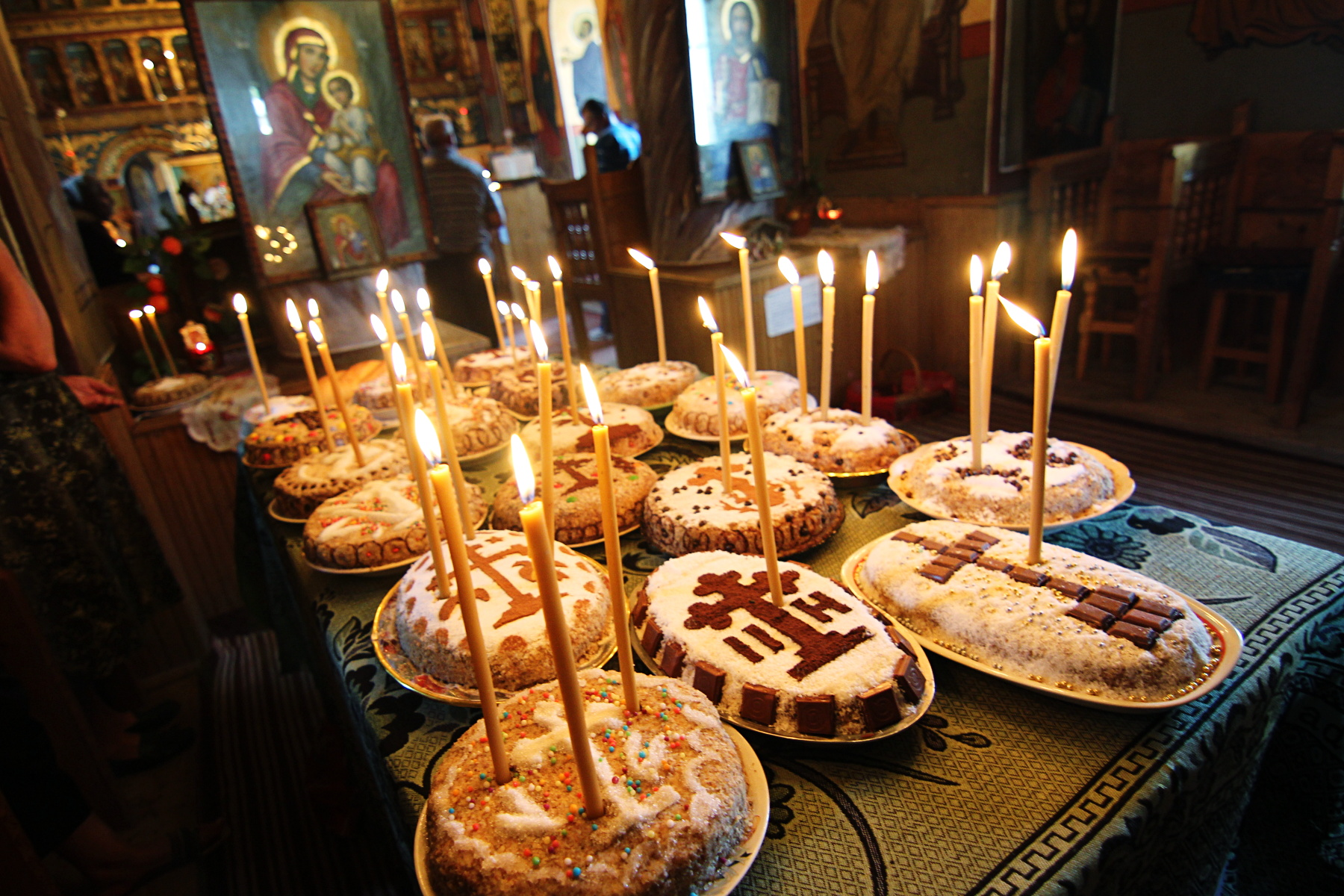 Romanian coliva used as part of a religious ceremony at a Christian Orthodox church